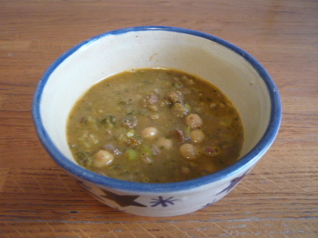 Moroccan soup